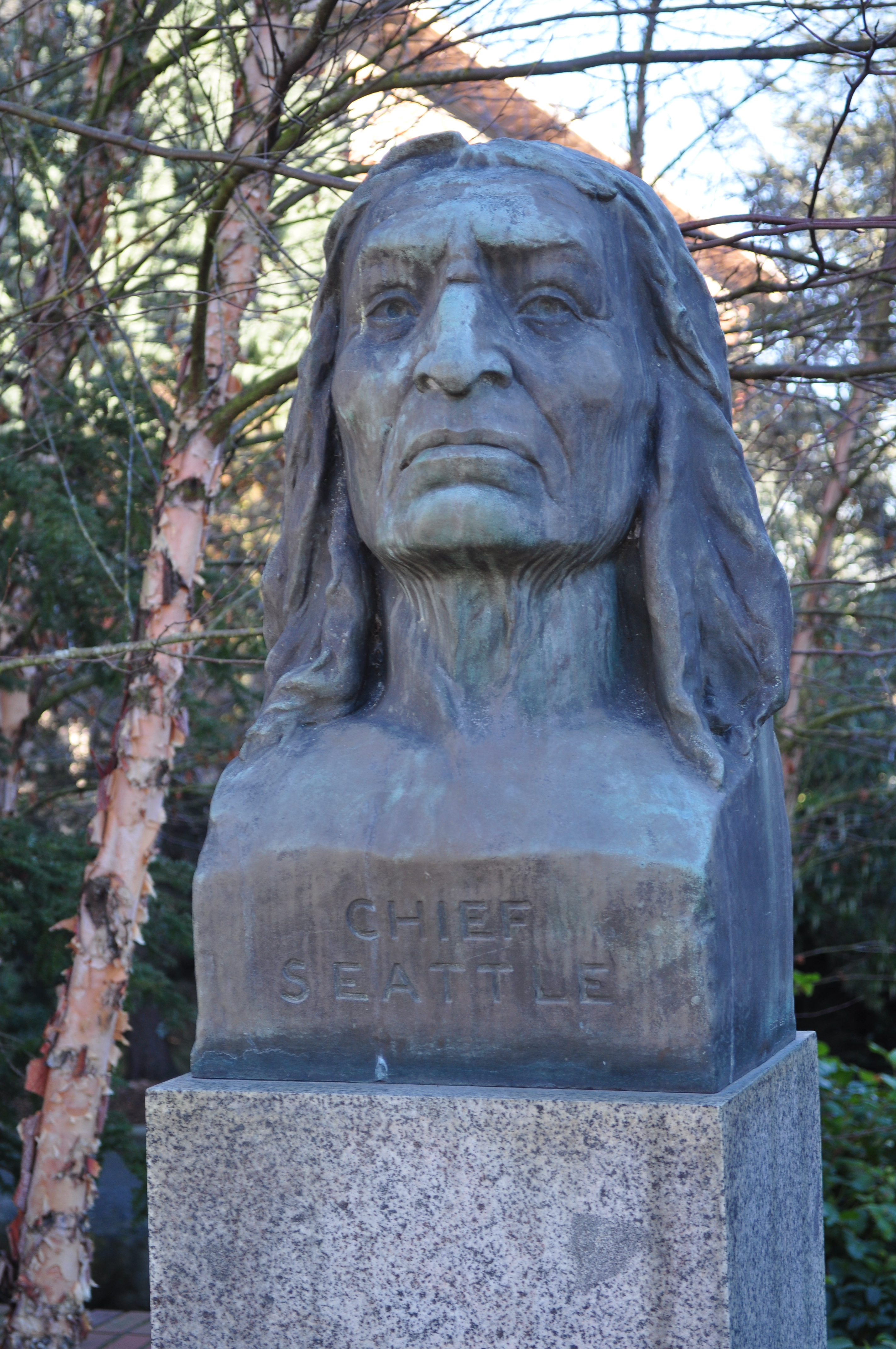 Bust of Noah Sealth (Chief Seattle), Seattle University, Seattle, Washington, U.S..